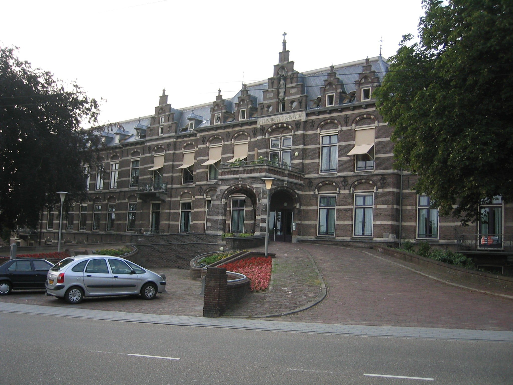 Former St Elizabeth Hospital, Arnhem, Netherlands